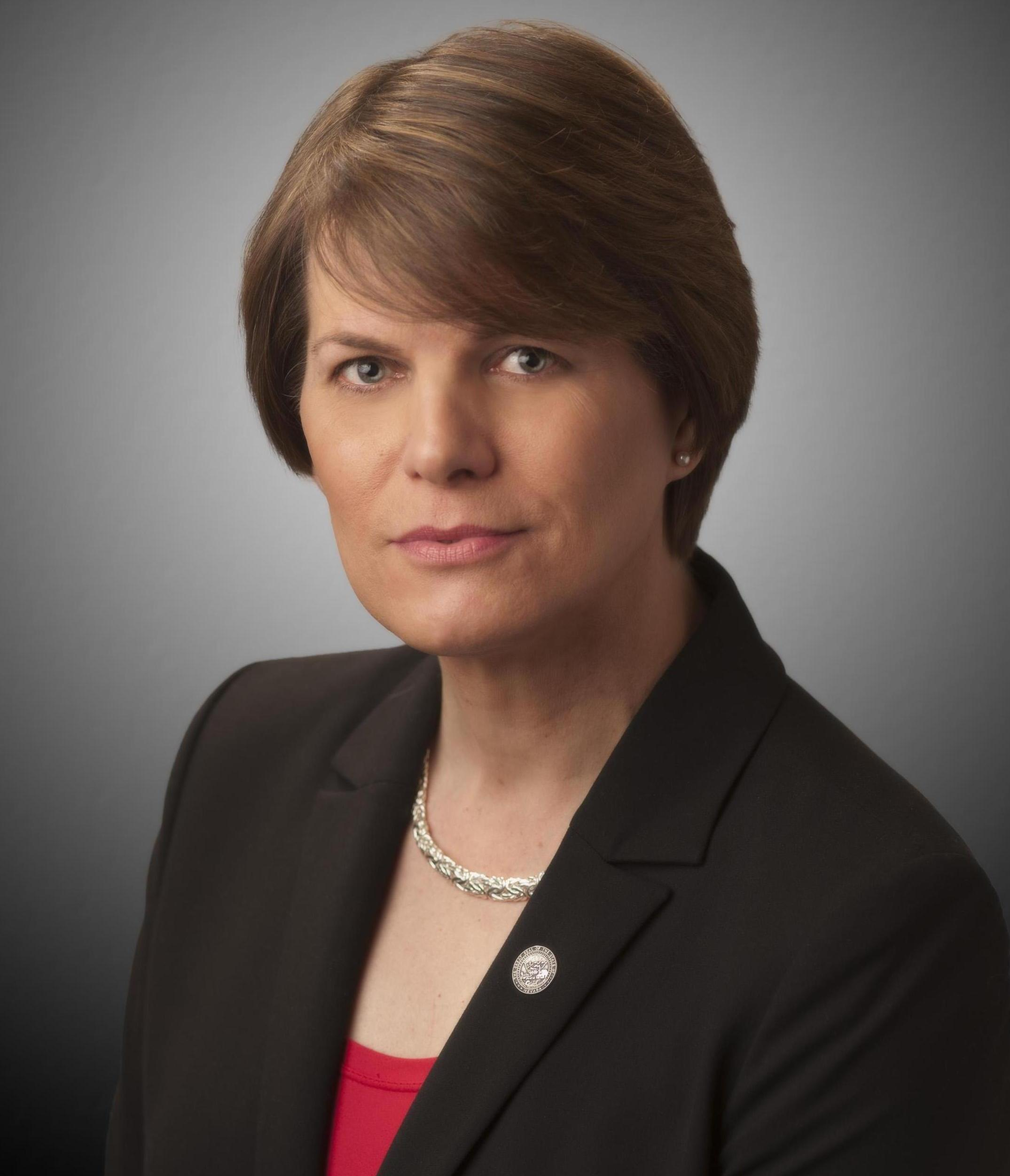 Lauren Scott is Republican Politician from Nevada running for the state Assembly District 30.